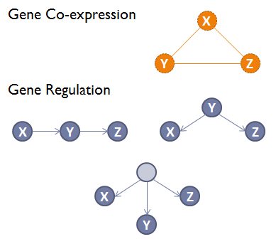 The direction of edges is overlooked in gene co-expression networks while gene regulatory networks try to find the causality relationship among genes.